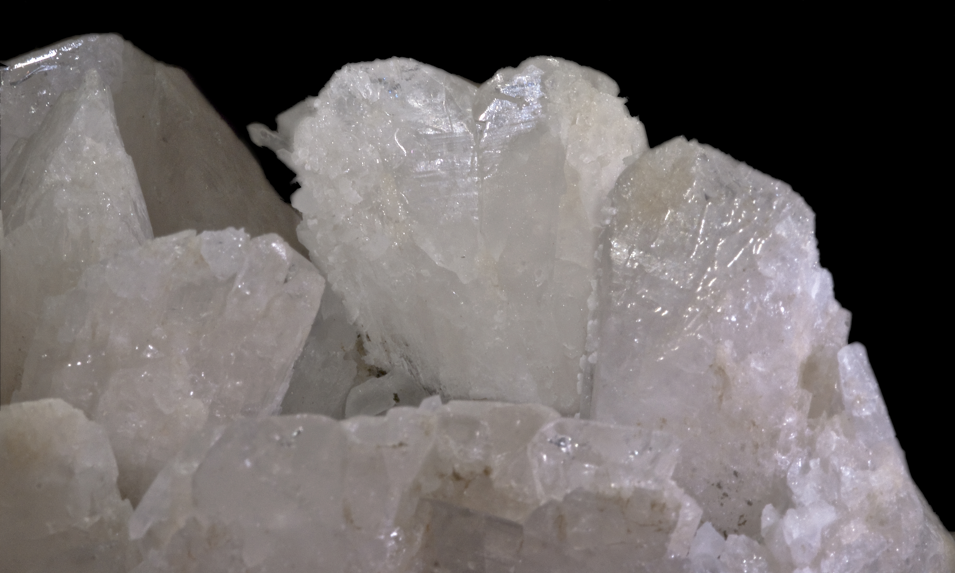 Danburite. Twin on {010} Locality : San Sebastian Mine, Charcas, Mun. de Charcas, San Luis Potosí, Mexico